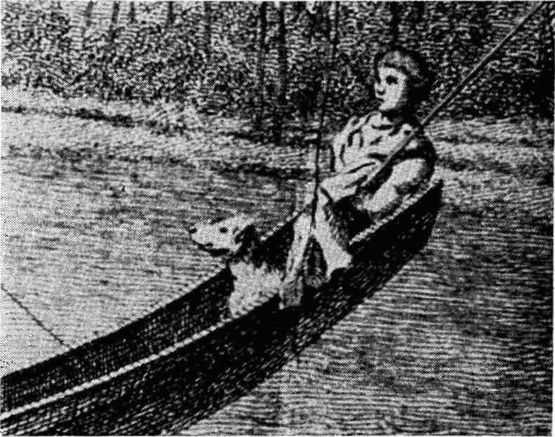 "A view of the island of Otaheite with several vessels of that island" (Hawkesworth, 1773, II : pI. 4). Tahiti, Society Islands, during Captain ~ Cook's first voyage. The dog is sitting below the boy in the prow. As usual, a seagoing rooster is also in the picture.